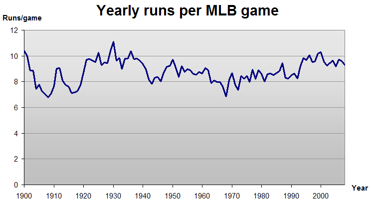 Graph showing the yearly number of runs per Major League Baseball game from 1900 to 2008. The data includes Federal League stats from 1914 and 1915. The numbers are from the free Sean Lahmann's Baseball Database Version 5.6. The run totals were gathered by a query in Microsoft Access and then inserted into Microsoft Excel where the rate was calculated and the graph was created.